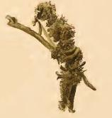 Stainton’s Natural History of the Tineina (1855–1873): Myrmecozela ochraceella